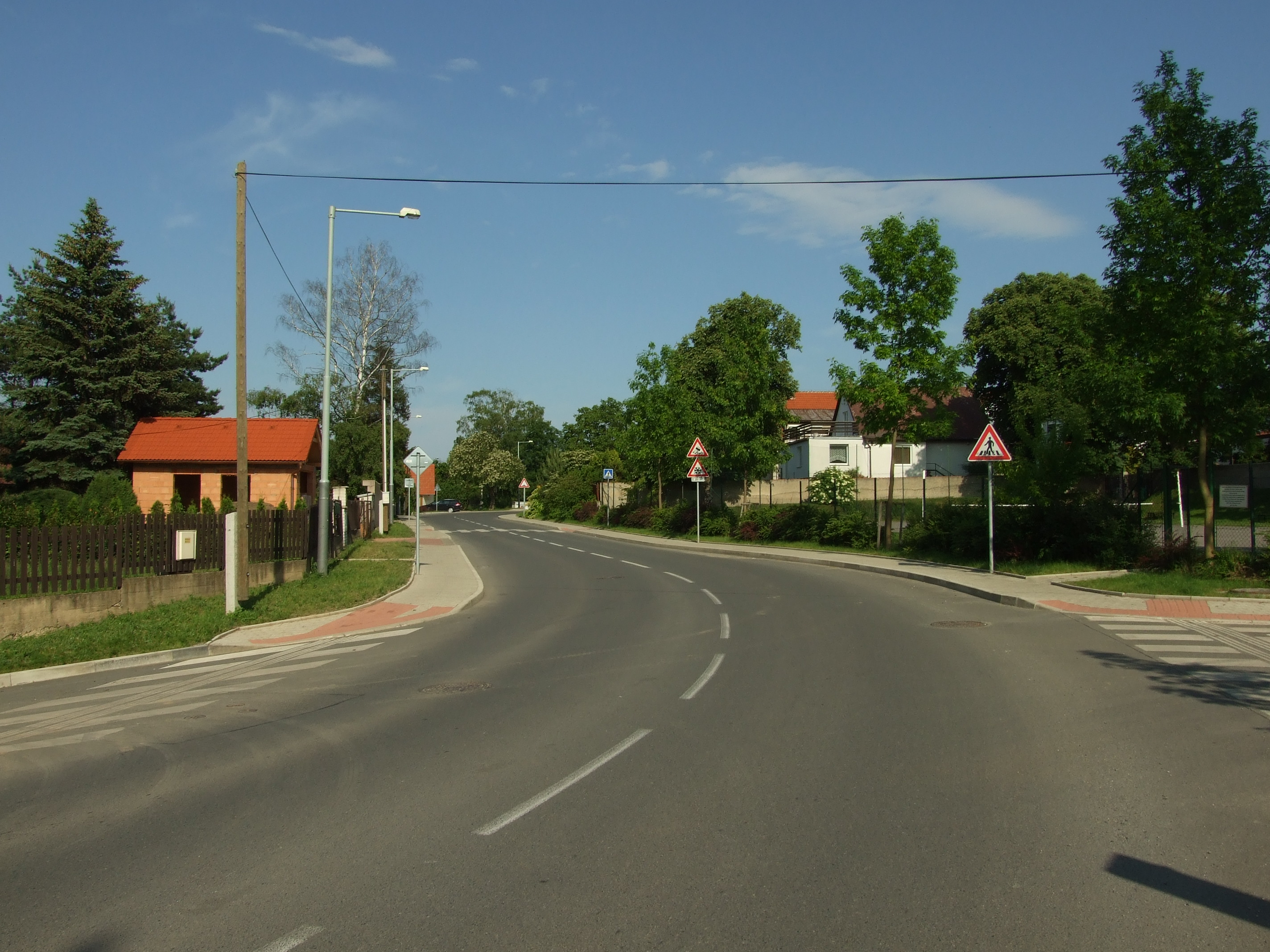 Sobín, a part of Prague near Central Bohemian region, CZhelp